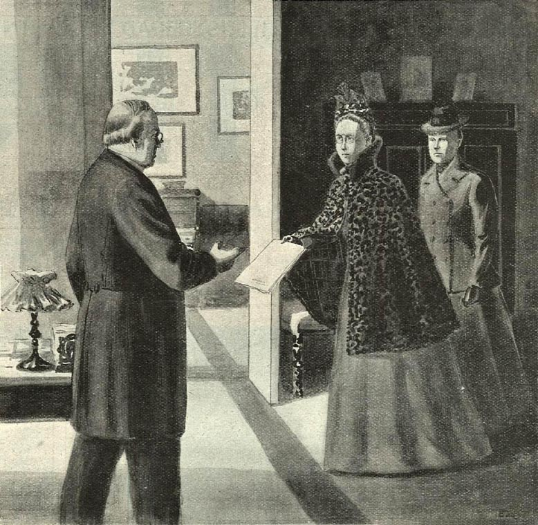 Mrs. Agda Montelius and Ms. Gertrud Adelborg deliver a petition about female suffrage on behalf of the Fredrika Bremer Association to the Prime Minister of Sweden, Erik Gustaf Boström in December 1899 or January 1900. The text of the petition indicates that the ladies in reality were far humbler than the illustrator has made them appear.